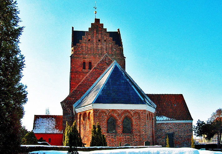 Derivative file. Cropped to delete text.